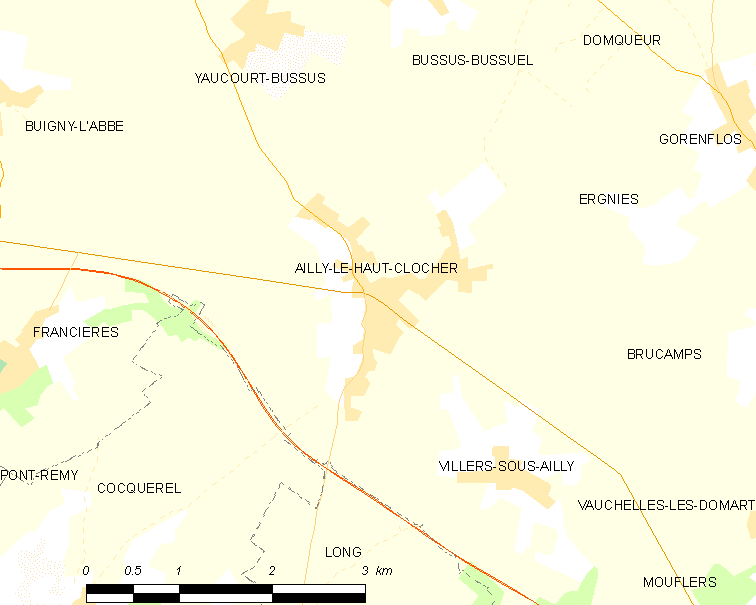 Map of French municipality Ailly-le-Haut-Clocher